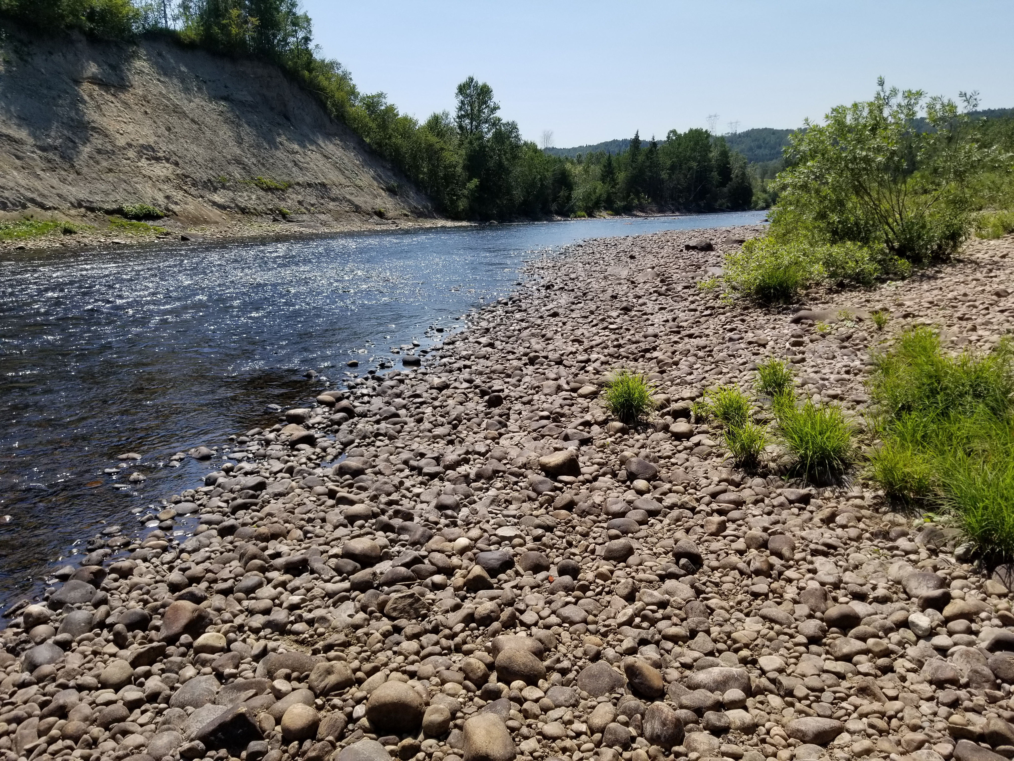 Malbaie River in Clairmont on 2018-07-20, downstream of the municipal park.